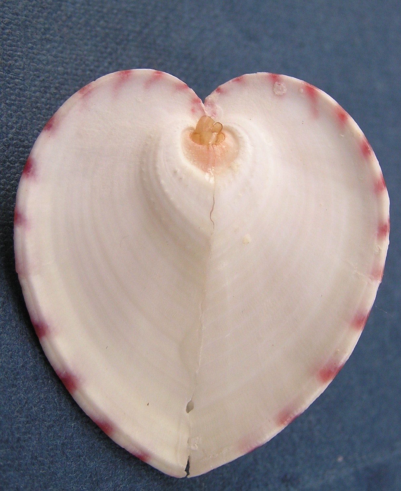 Corculum cardissa (Linnaeus, 1758) , a cockle from the family Cardiidae; Philippines